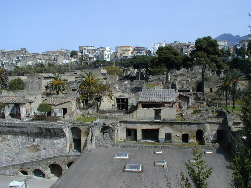 Herculaneum (Naples): panorama of the excavations